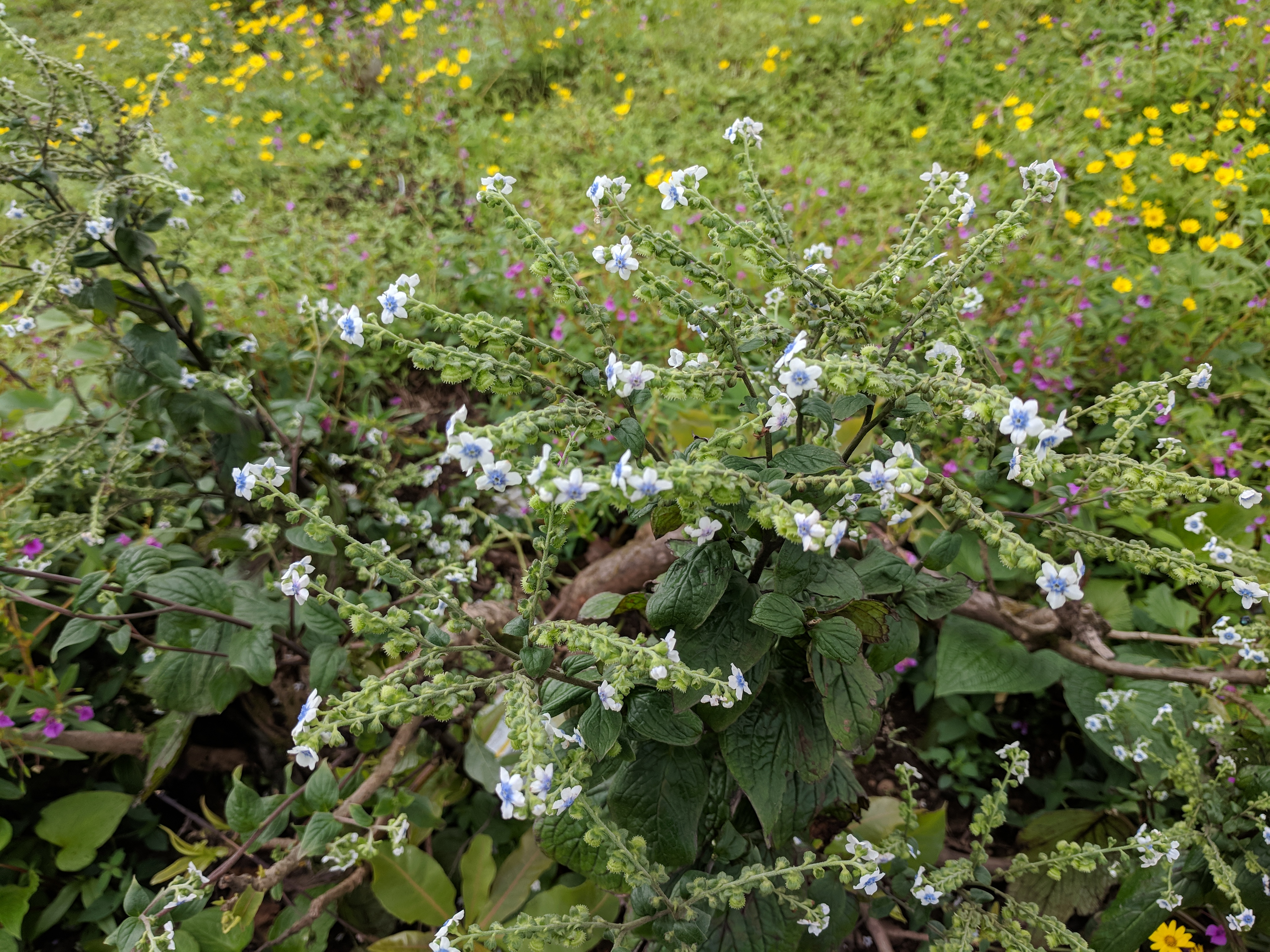 Lonavla